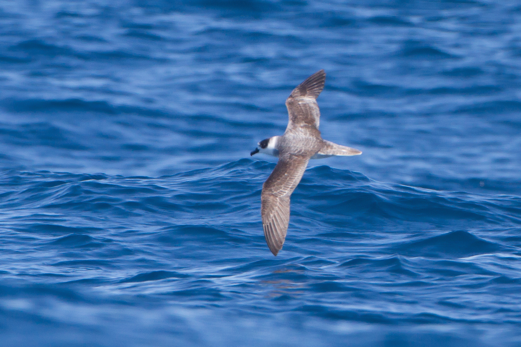 White-necked Petrel (Pterodroma cervicalis), East of the Tasman Peninsula, Tasmania, Australia